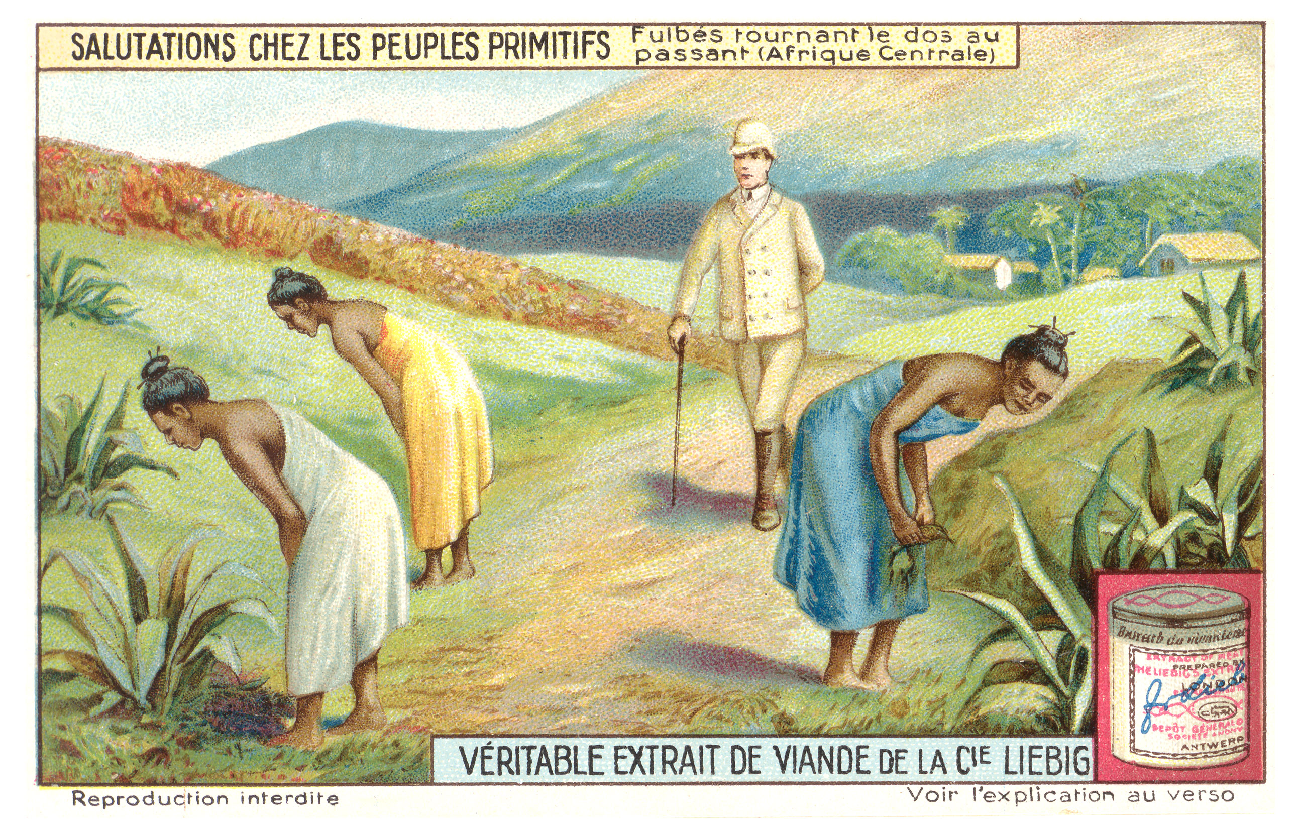 Fula Greeting Ritual